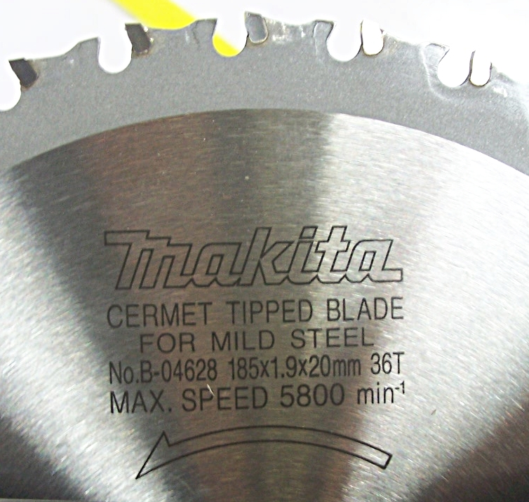 Makita brand cermet-tipped rotary cold saw blade